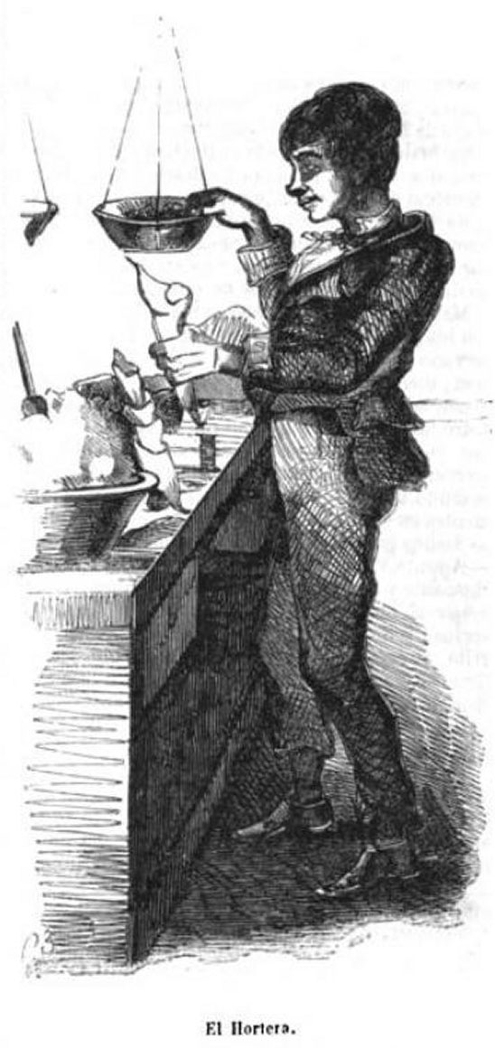 "El Hortera", illustration from the book Los Españoles pintados por sí mismos.